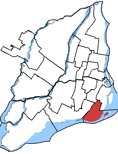 Map of the LaSalle—Émard electoral district. Based on Earl Andrew's maps, created by SimonP.